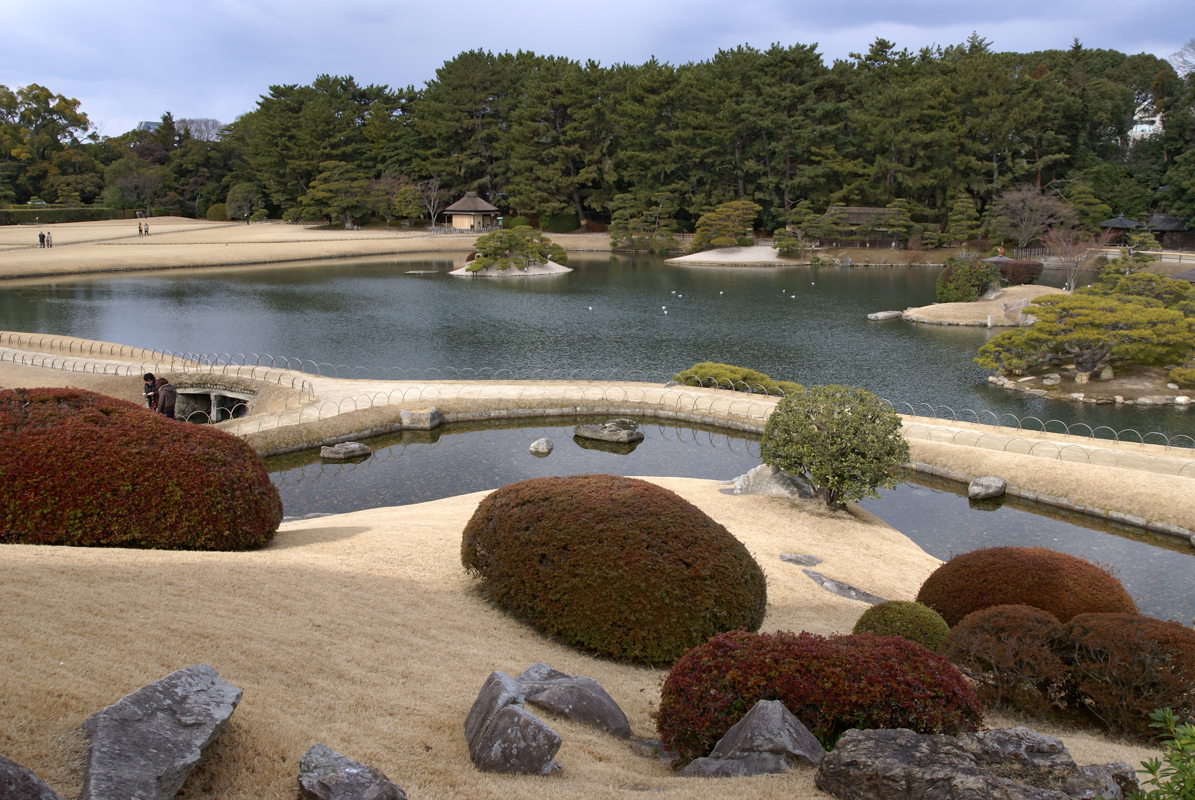 Korakuen in Okayama, Okayama prefecture, Japan